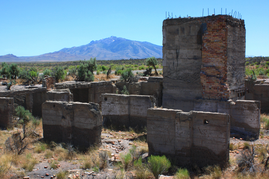 Metropolis, Nevada, USA, Hotel Metropolis - ruins with Greys Peak in the background